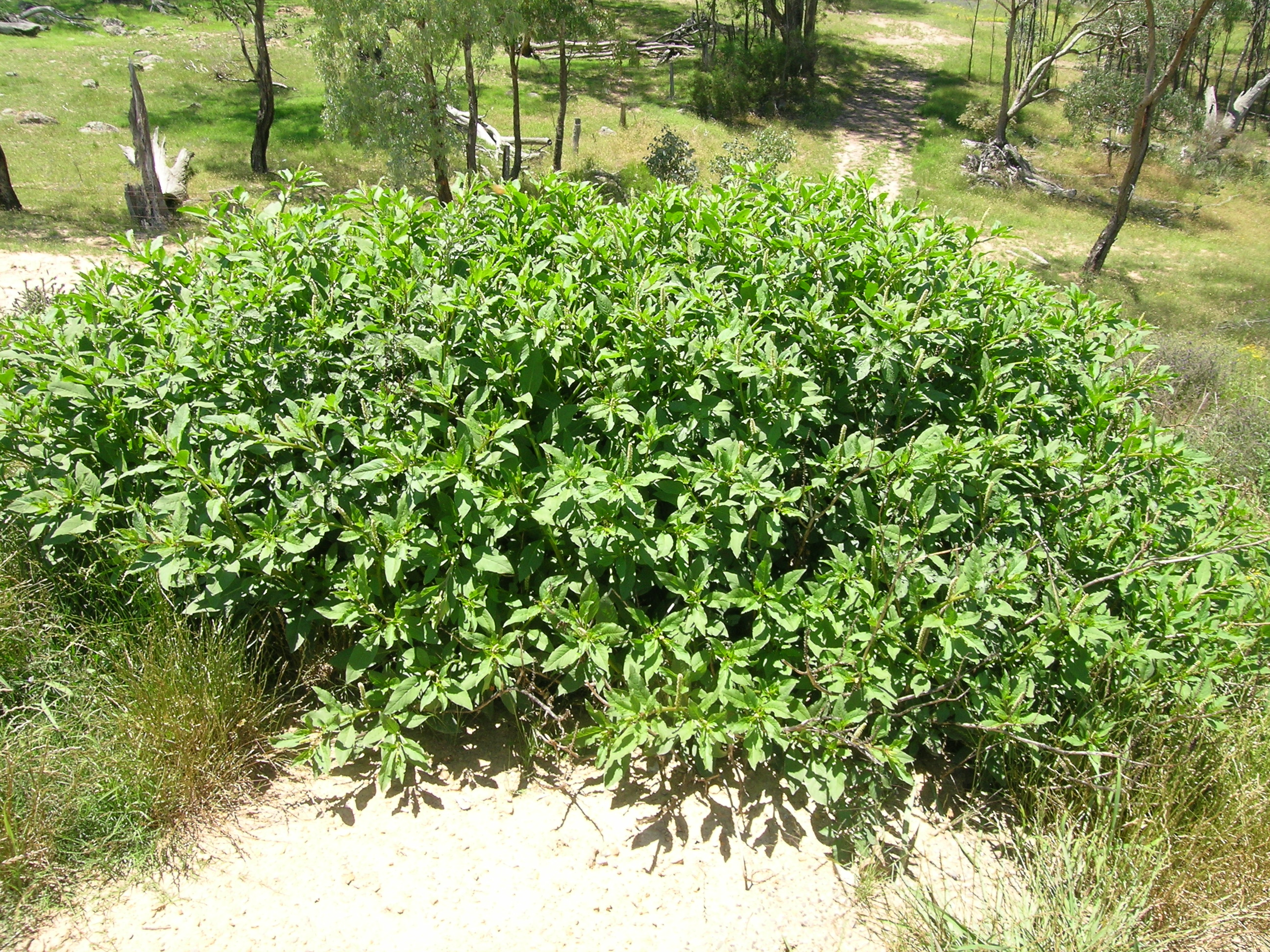 Introduced, warm-season, perennial herb to small shrub, commonly 1-2 m tall. Leaves are elliptical to oval with pointed tips, green turning red. Flowerheads are dense spike-like racemes of small greenish white flowers which develop into shiny succulent berries (to 10 mm across) that ripen to a dark reddish-purple. Flowering is from late spring to autumn. A native of tropical America, it is found in disturbed sites, wastelands and roadsides (e.g. where timber has been pushed up or burnt and where soil has been freshly cleared). Prefers moist areas and can invade areas of native vegetation if there is disturbance. An indicator of disturbance. Berries and leaves may be poisonous to stock, but are rarely grazed. Can be successfully controlled by chipping deeply enough to remove the crown. Hand pulling is ineffective and sap may cause skin irritation. Maintain ground cover and competition for ongoing control. Herbicides are registered for control.